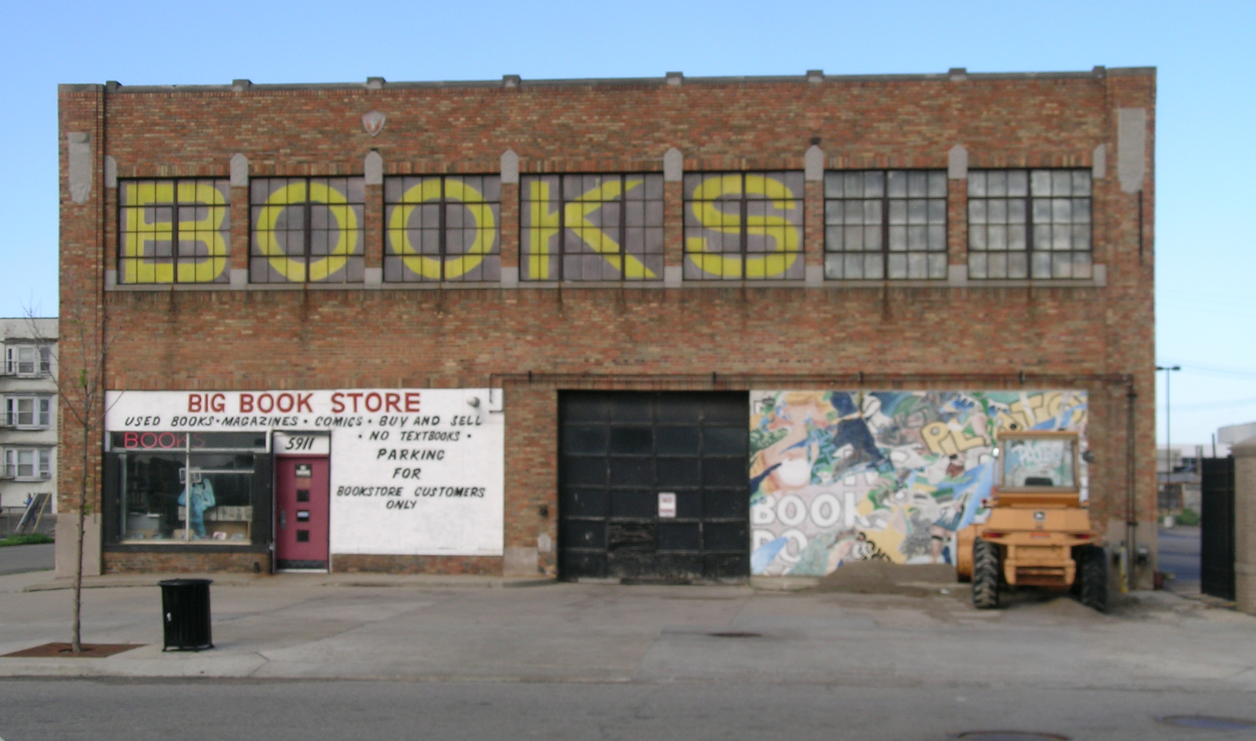 The Carney-Labadie Building at 5911-5919 Cass Avenue, Detroit, Michigan, United States, lies within the New Amsterdam Historic District. It is now operated as the John King Big Bookstore.